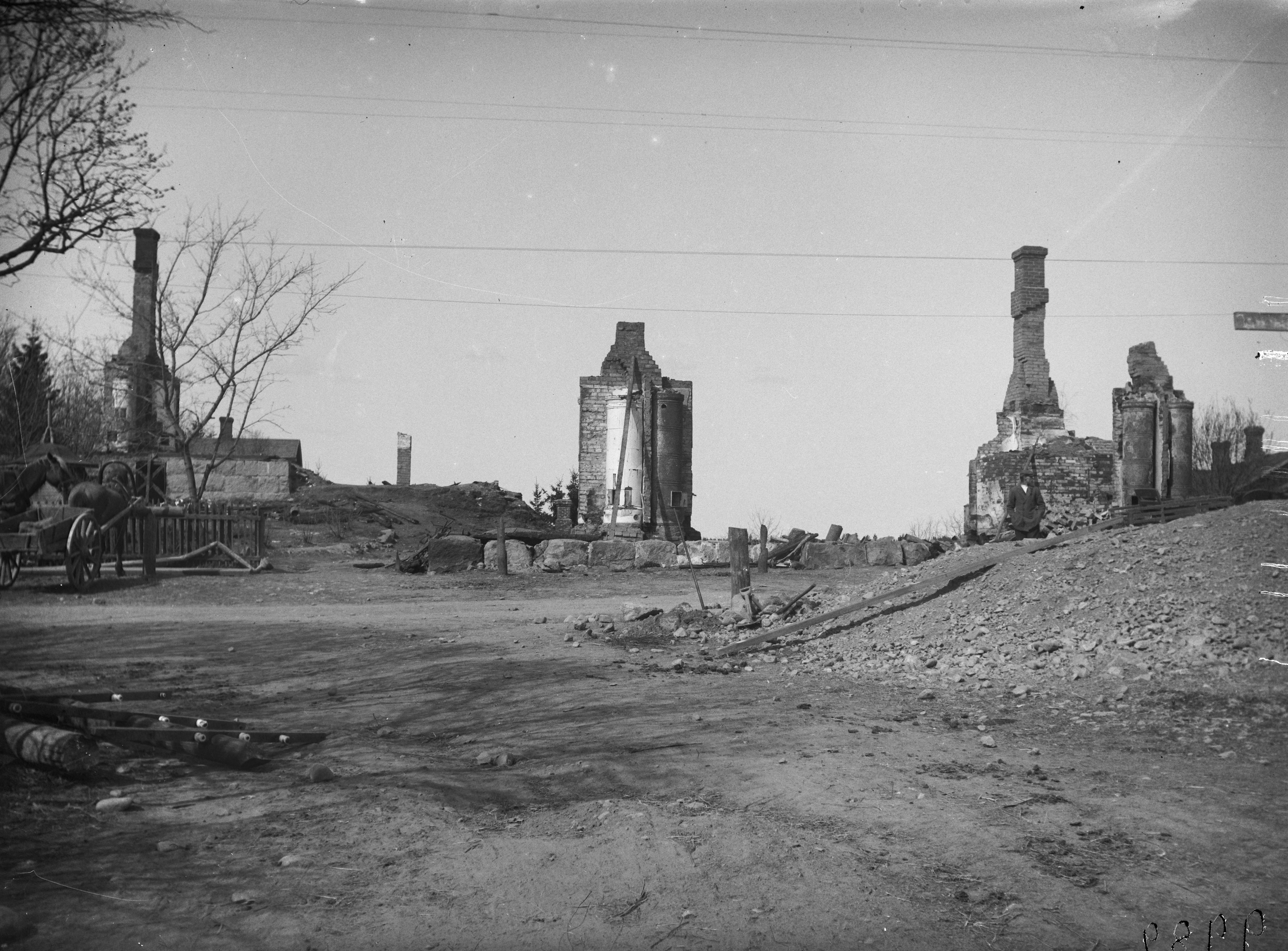 Ruins of Lempäälä in 1918.